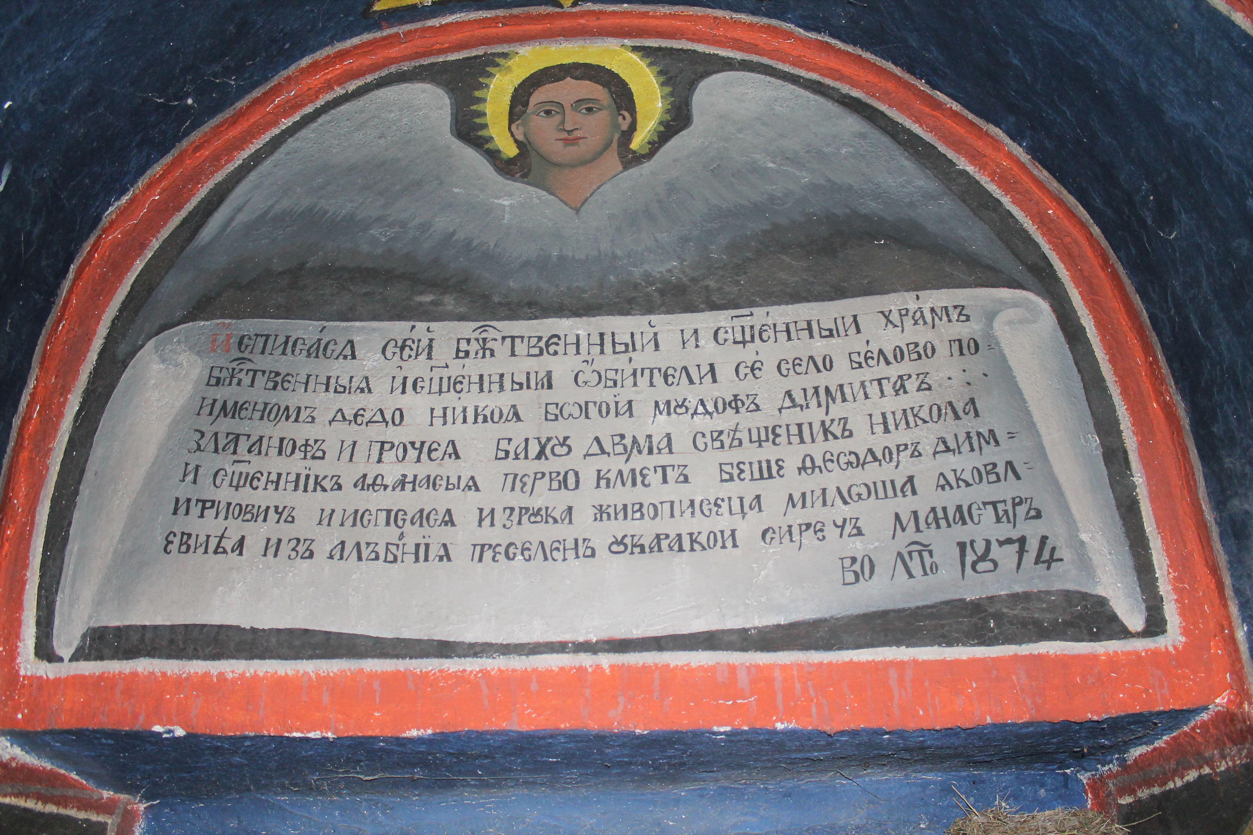 Donor inscription of the temple "St. Athanasius," 1874, village Belyovo, Southwestern Bulgaria